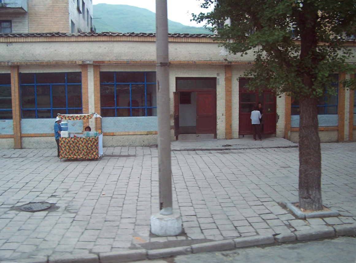 An empty store in Kaesong, North Korea